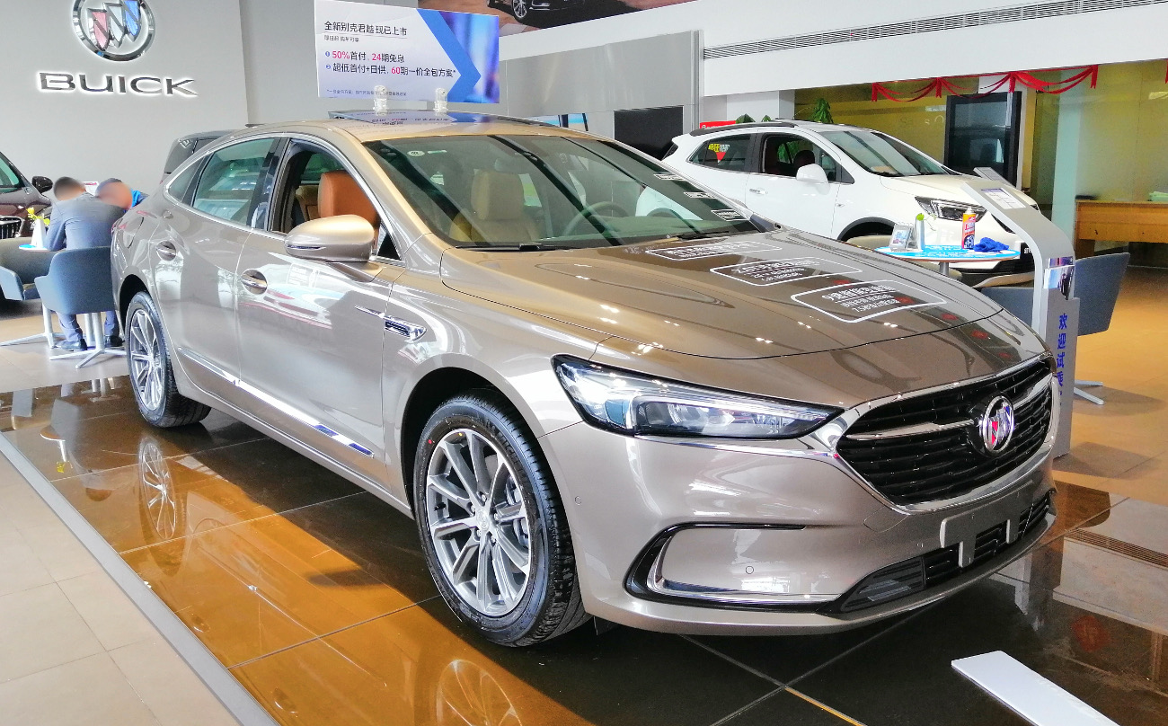 Buick LaCrosse III facelift photographed in Shanghai, China.